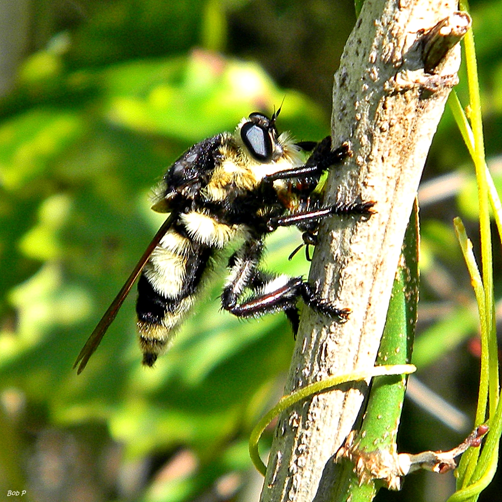 I have been trying to get close to one of these monster robber flies for several years with no luck, This photo was taken from 8 feet away and is heavily cropped. When I inched forward, the fly flew. I see these gigantic flies buzzing around like small birds but rarely find one stationary. Their coloration mimics bumblebees and they buzz like motorboats. They eat bees but the ones I have seen were feeding mostly on wasps, which this one appears to be holding. Juno Dunes Natural Area (south). ID via